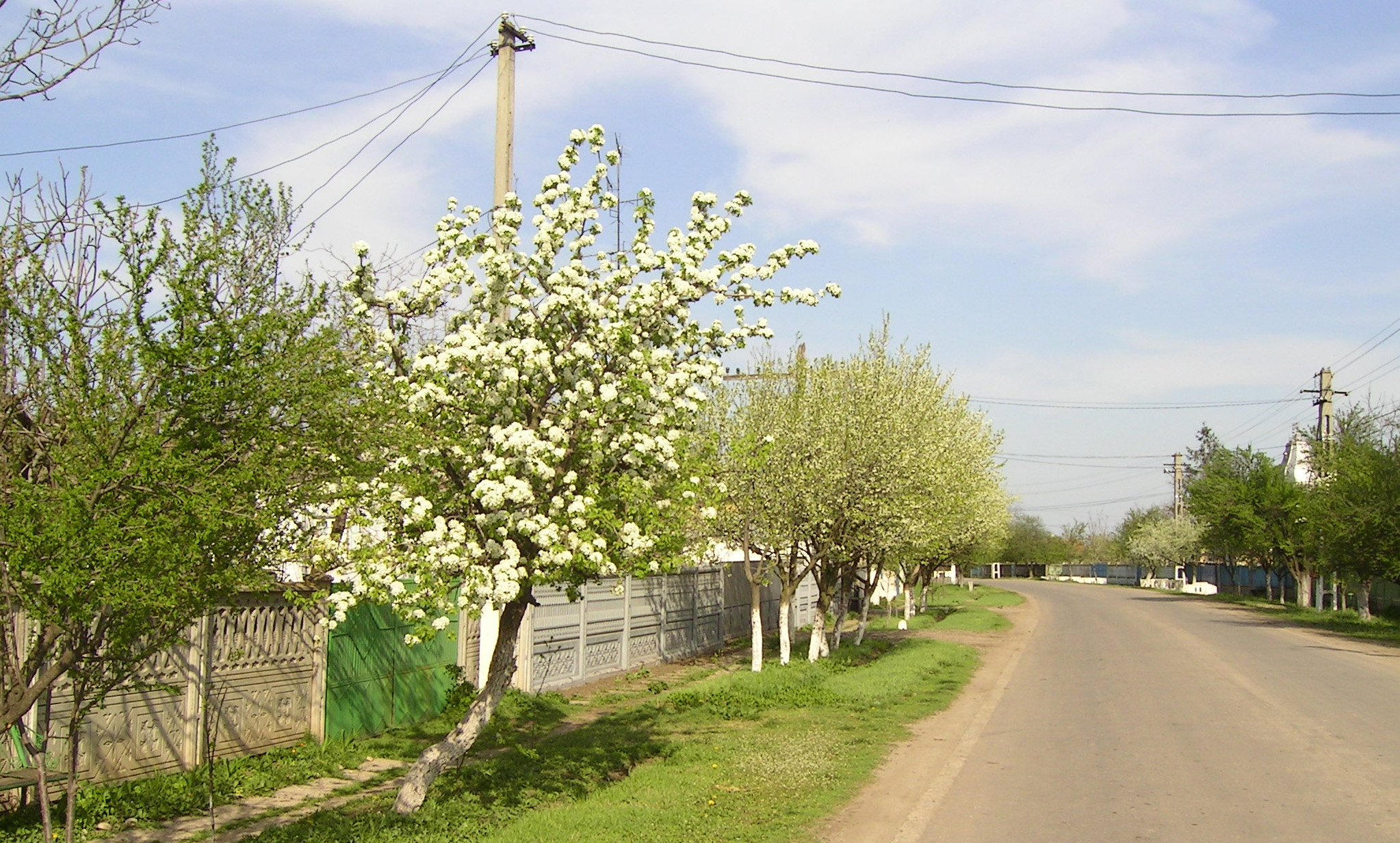 Vădăstrița - Spring time